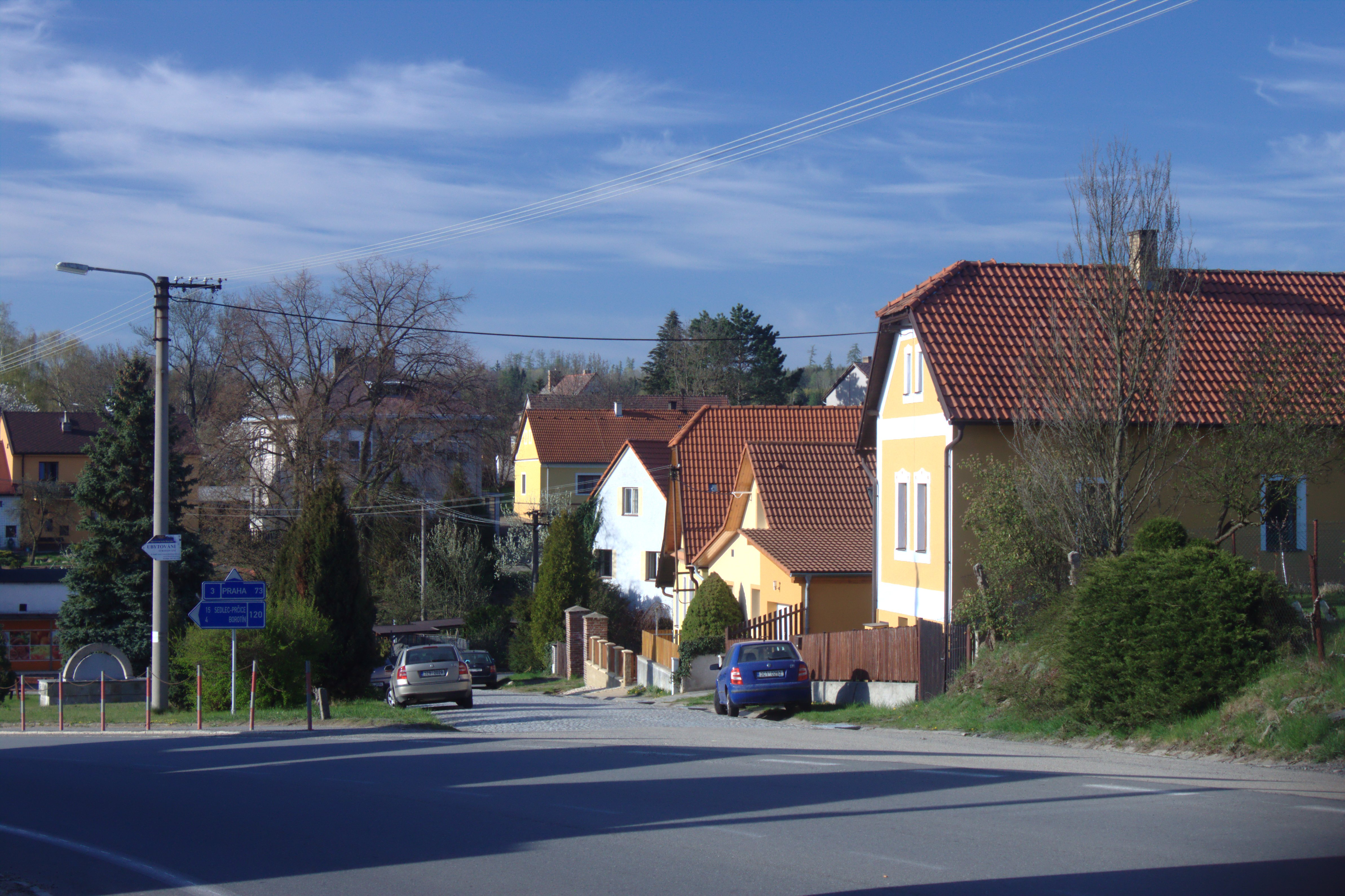 This photograph was created as a part of Wikiexpedition Mladá Vožice, a project supported by Wikimedia Foundation grant.